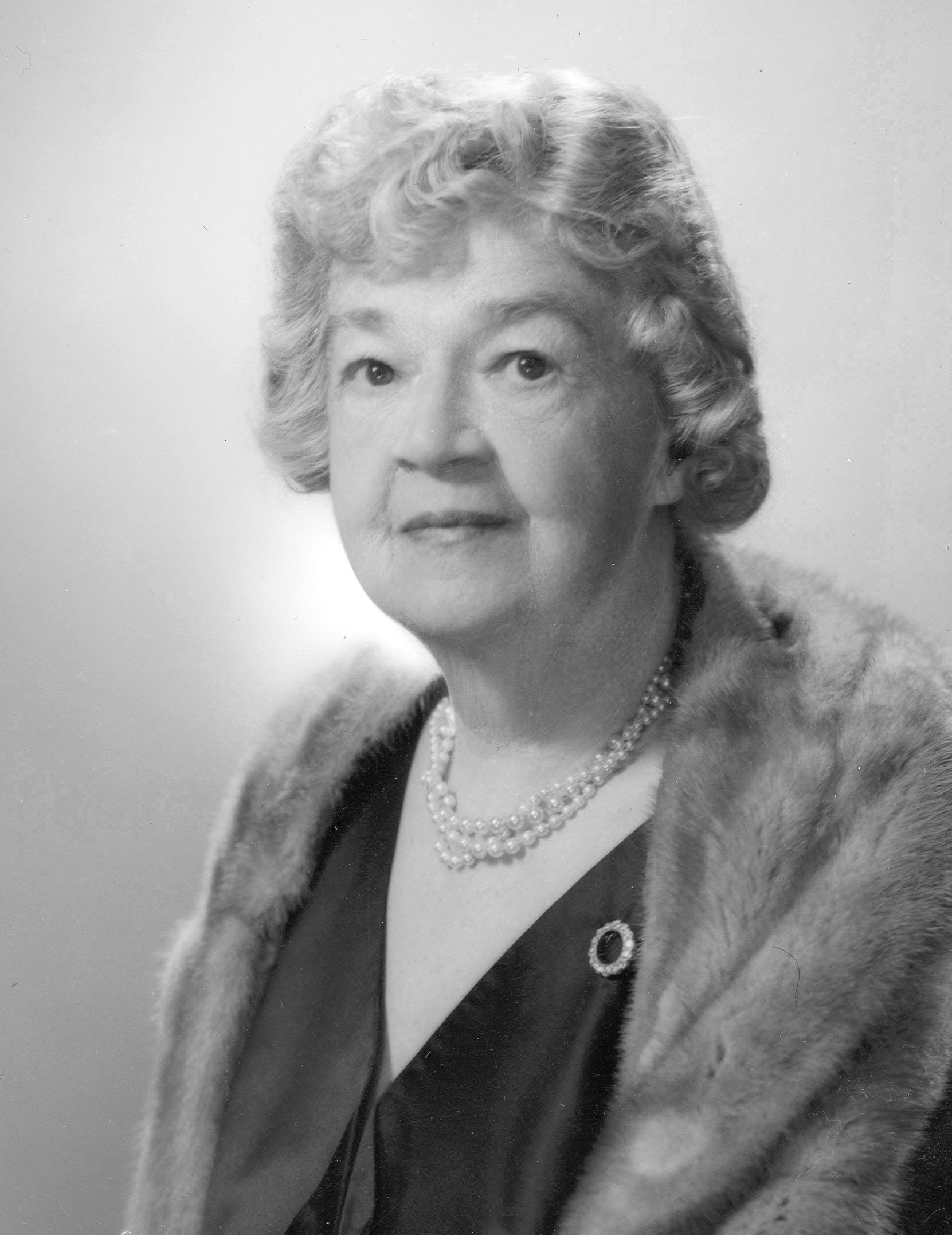 Edith Nourse Rogers, US Representative